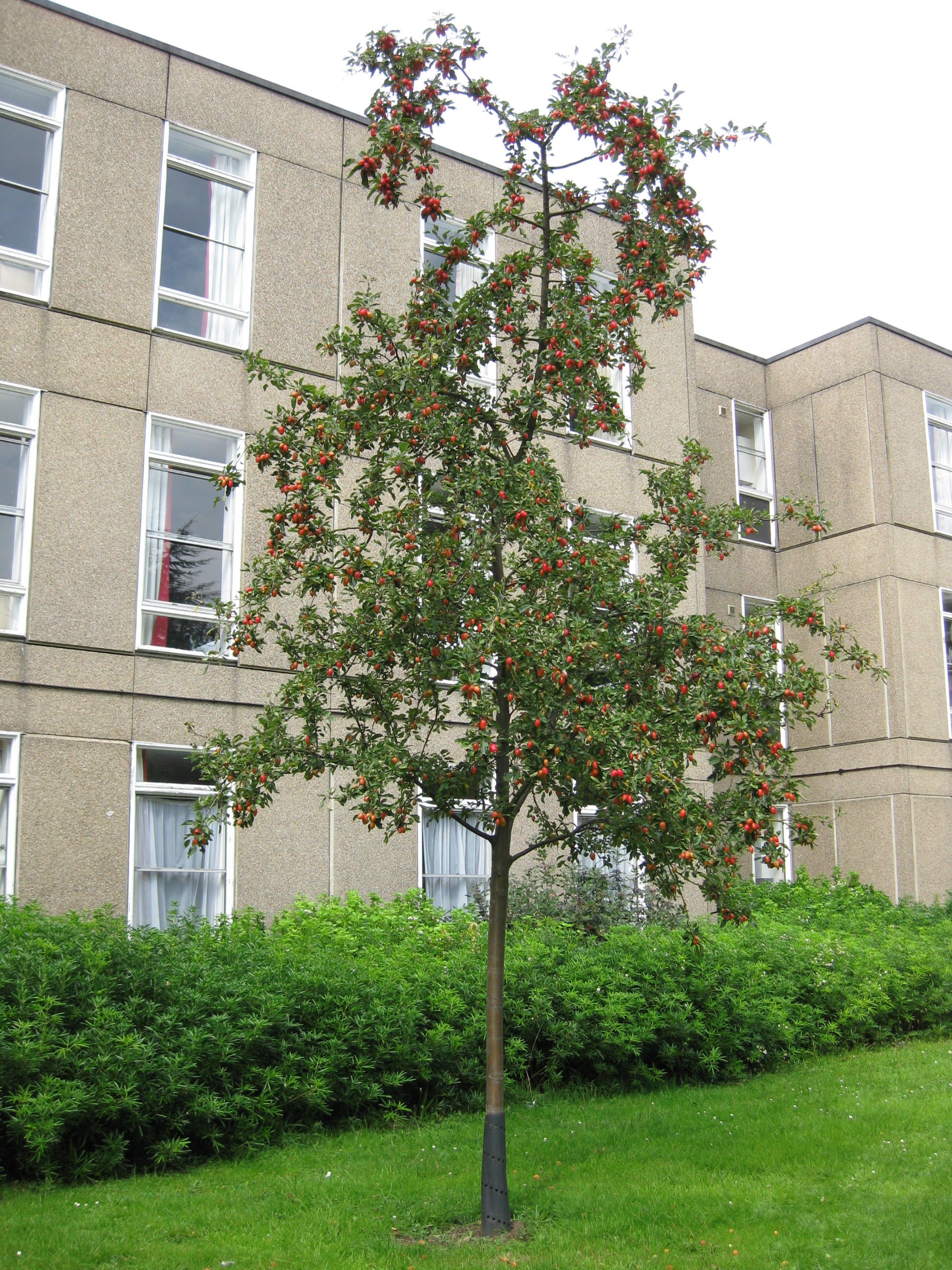 Van Brugh College, University of York